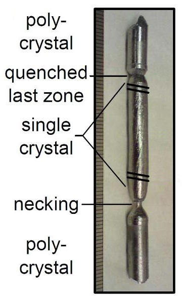 Photograph of a float-zoned MnSi ingot